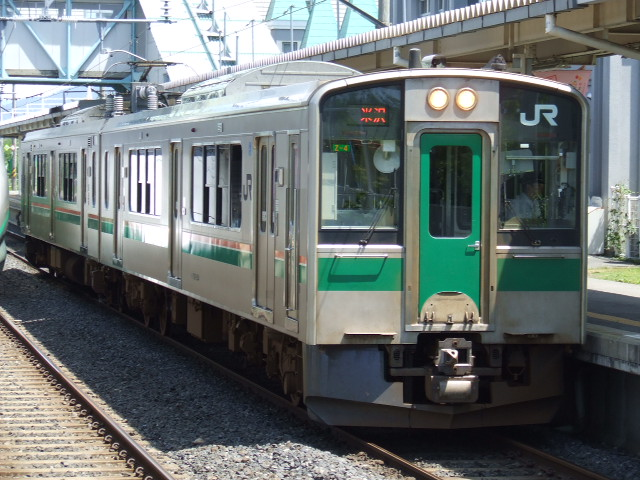 JR East 701-5500 series EMU set Z4 at Takahata Station on the Ou Main Line in Japan